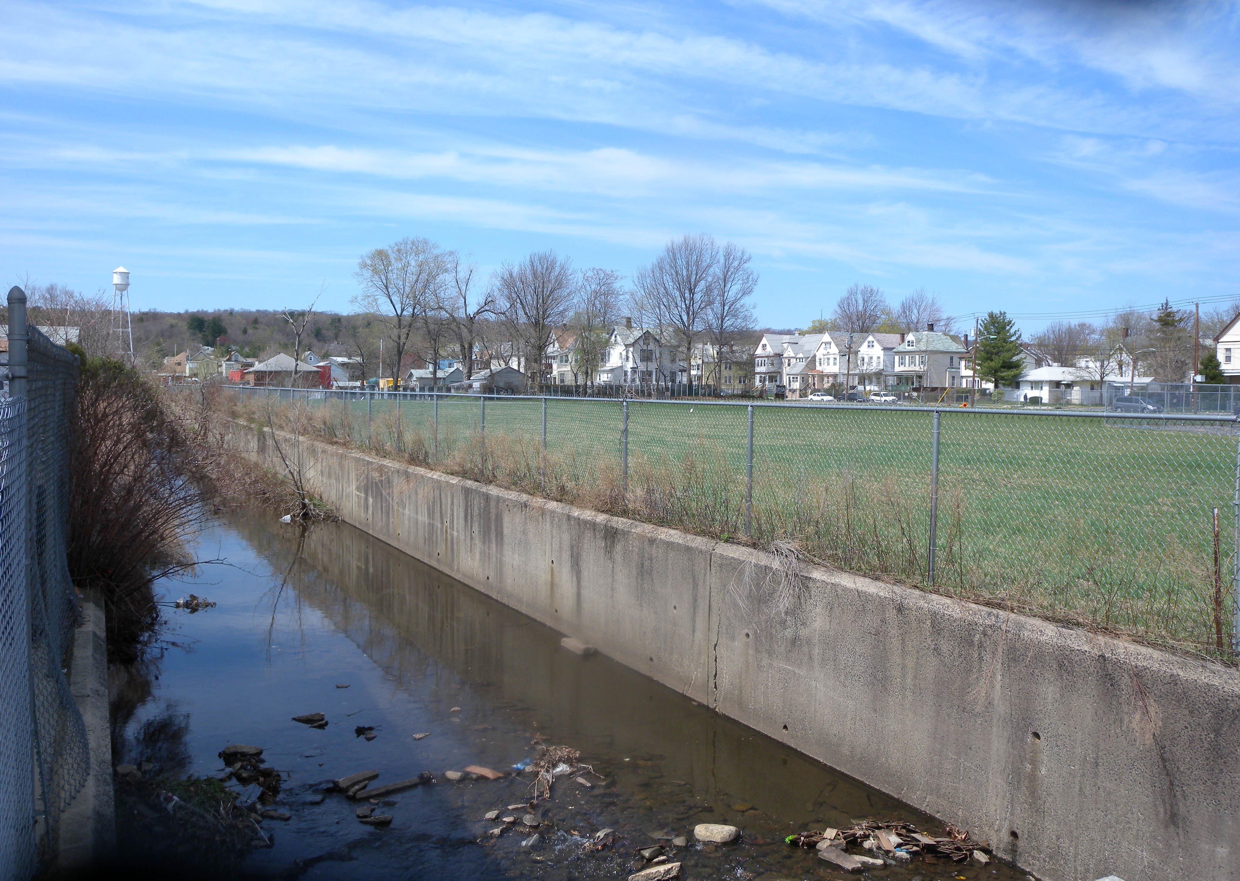 Looking northwest at US Radium Company site from High Street bridge over Second River on a sunny midday. See also File:Second River west of High jeh.JPG.